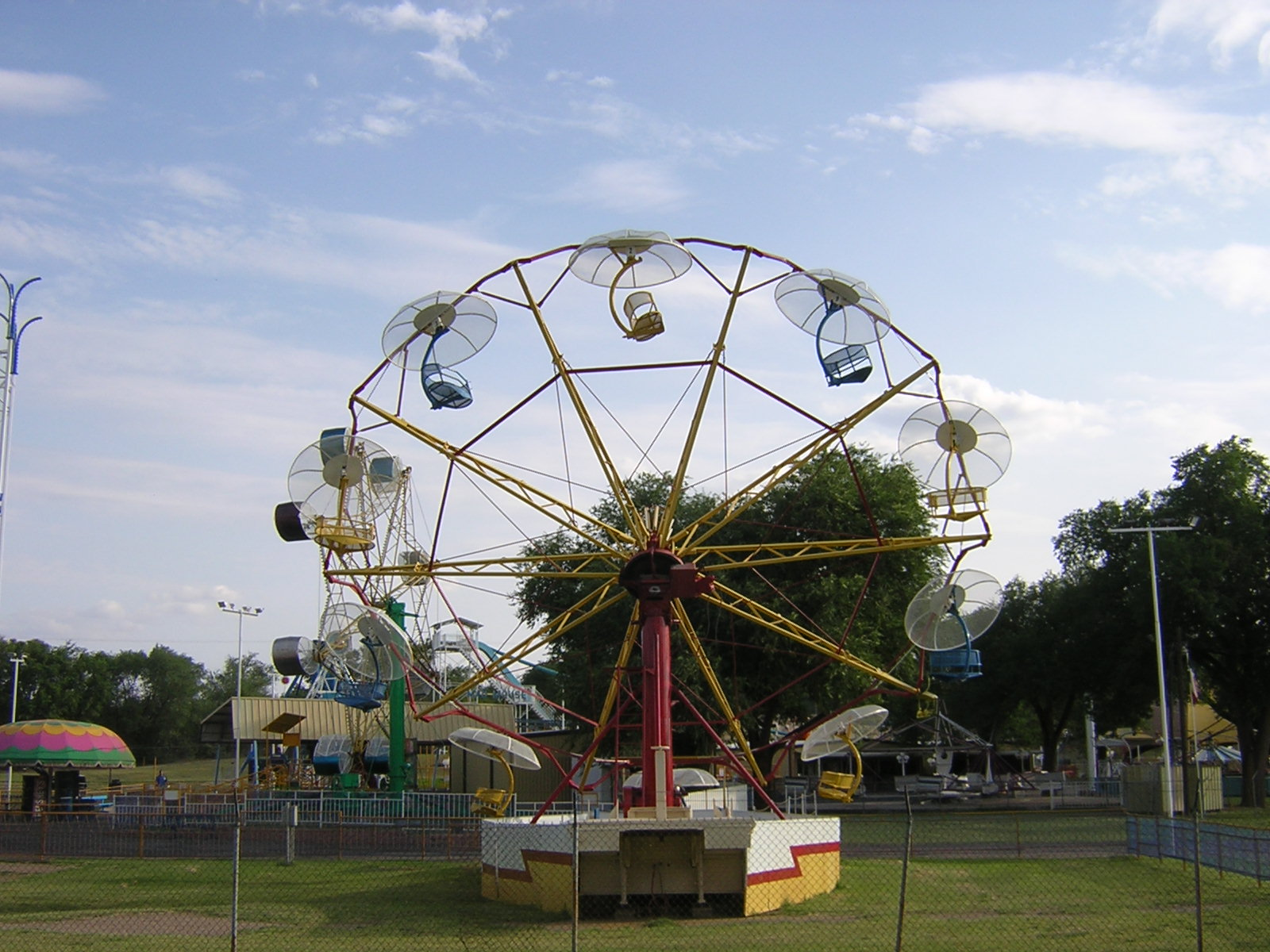 Paratrooper Amusement Ride at Joyland Amusement Park in Lubbock, Texas